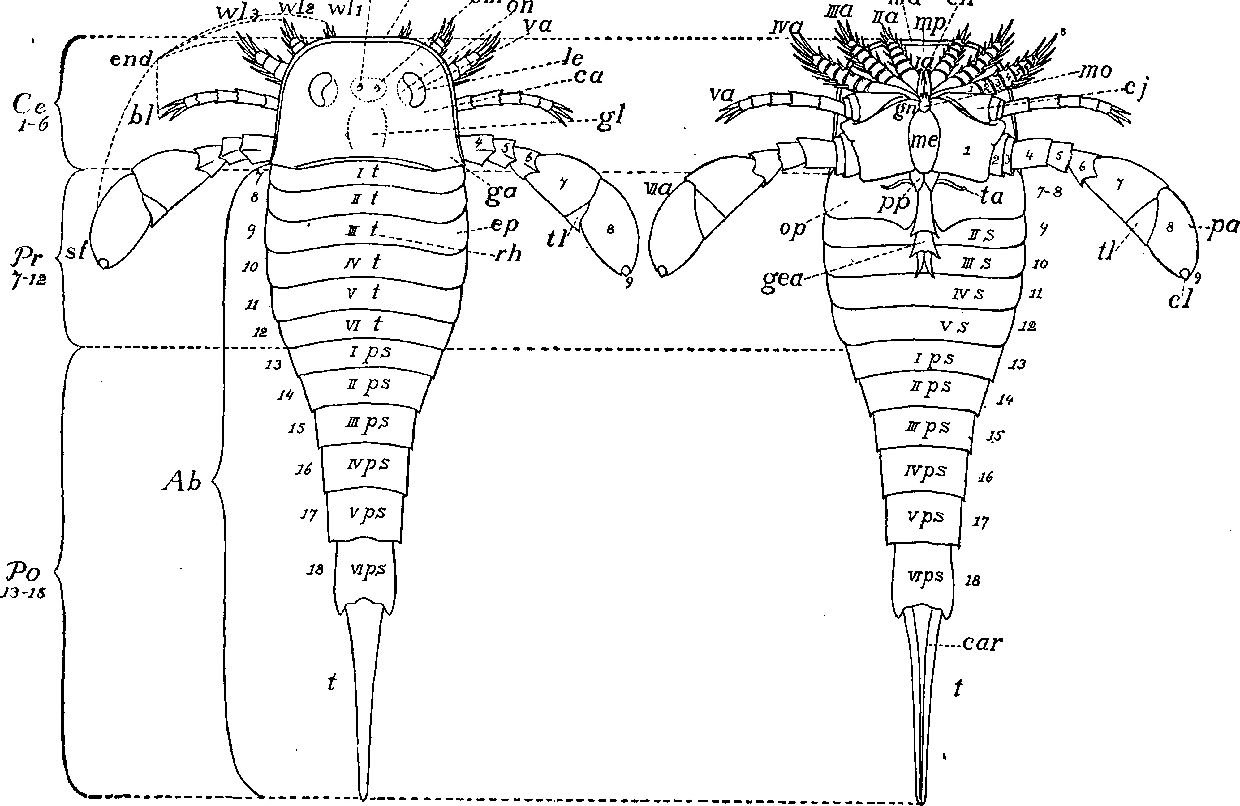 Title: The Eurypterida of New York Year: 1912 (1910s) Authors: Clarke, John Mason, 1857-1925; Ruedemann, Rudolf, 1864-1956 Subjects: Eurypterida; Paleontology Publisher: Albany, New York State Education Department Text Appearing Before Image: 24 NEW YORK STATE MUSEUM \A/).^,--,^J.s.,^^h 0 r pm ii\d ch Text Appearing After Image: Figure 2 Diagram of an Eurypterid a; la- Via = appendages or legs Ab = abdomen bl = balancing leg ca = carapace or head shield car = carina of telson Ce = cephalothorax or prosoma ch = chelicerae, la, preoral appendages or mandibles cj = coxa end = postOTsi( appendages or endognathites ep = epimera or pleura of tergite ga = genal angle gea = genital appendage (female ) gl = glabella gn = gnathobase le = lateral or compound eyes md = marginal doublure me = metastoma or postoral plate mo = mouth mp = marginal plate on under side of cephalothorax o = " larval" median eyes or ocelli om = ocellar mound on = ocular node op = operculum or first sternite pa = palette Po = postabdomen or metasoma pp = pentagonal pieces Pr = preabdomen or mesosoma ps, I- VI = caudal or postabdominal segments r = rim rh = rhachis s, II- F=sternites sf= swimming leg / = telson t,I-VI== tergites ta = tubular organs // = triangular lobes va = visual area tul 1-3 = walking legs